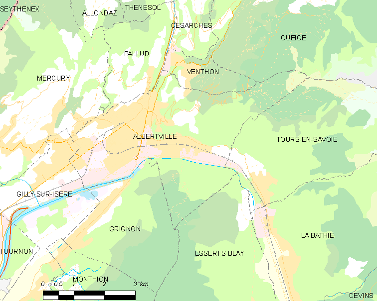 Map of French municipality